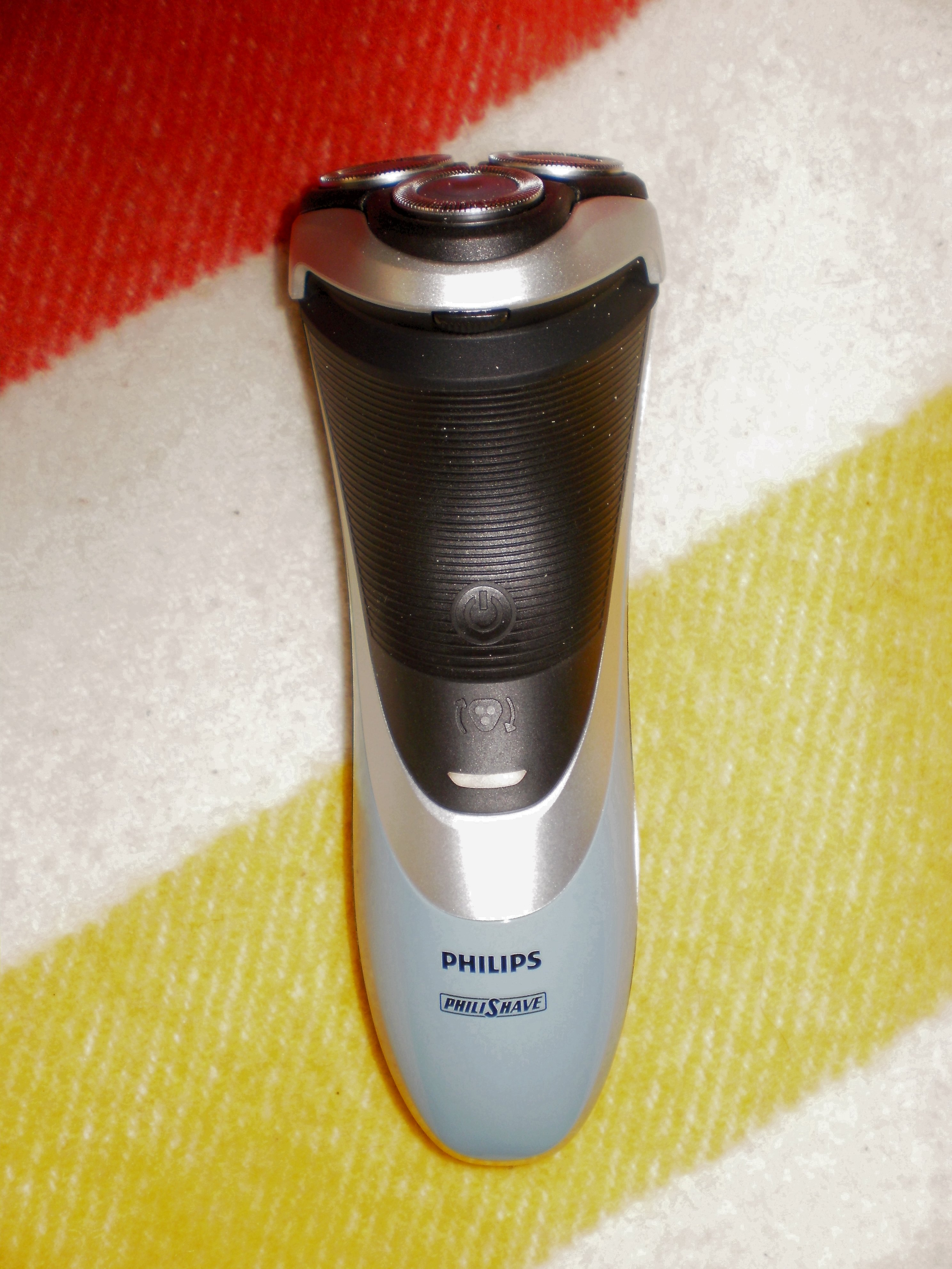 The 80th anniversary Philishave S3552 shaver introduced in 2019 to celebrate Philips' 80th anniversary in the electric shaver business.